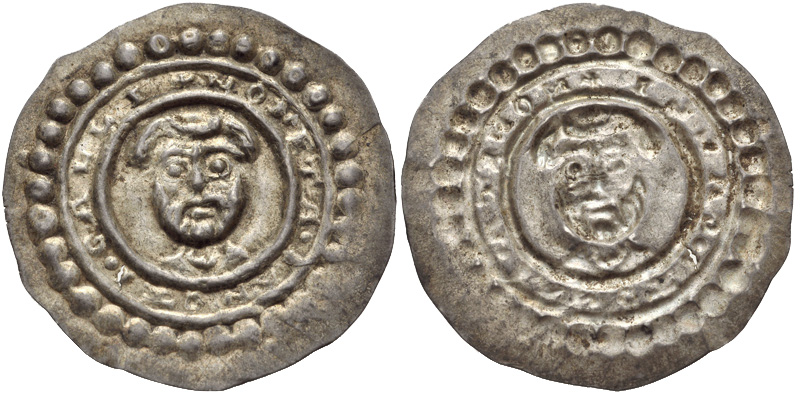 SWITZERLAND, St. Gallen. St. Gallen (Abtei). 8th-15th centuries. AR Bracteate Runder Pfennig (23mm, 0.47 g, 12h). Struck circa late 12th century. MONЄTA • SANCTI • GALLI, head of St. Gallus facing / Incuse and reverse of obverse. Coraggioni -; HMZ, Schweiz 1-463a; Bonhoff 1817-8. Good VF, lightly toned, minor crack.